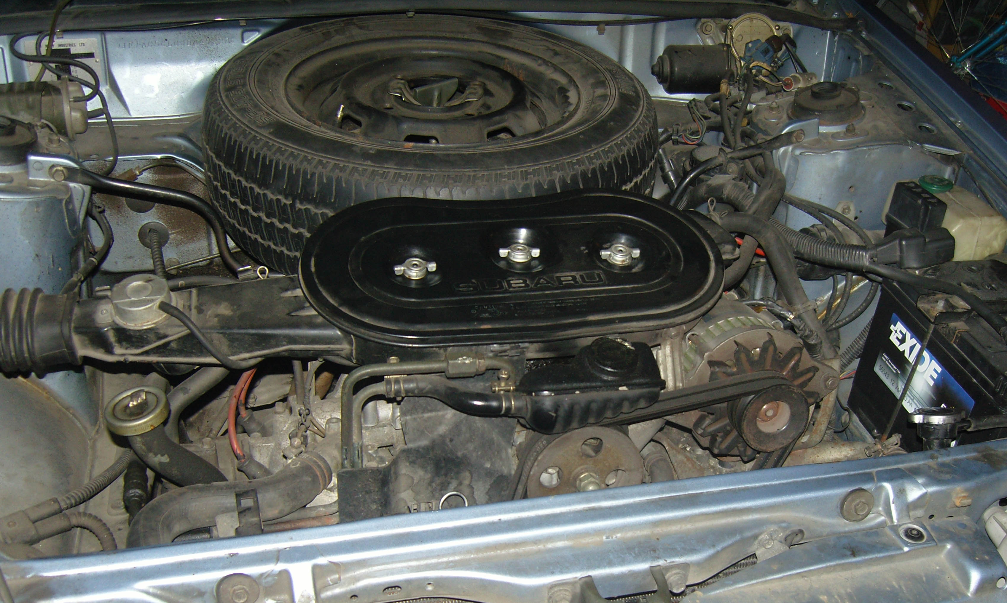 Subaru EA82 1.8 L engine of a 1989 Leone.